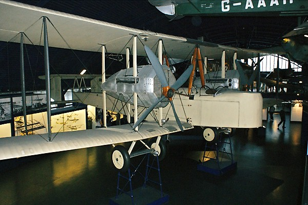 Alcock & Brown's Vickers Vimy at the Science Museum, South Kensington, 11/08. The first aircraft to cross the Atlantic in 1919. The Vimy was the final British heavy bomber design of WWI but too late to see operational service; nonetheless, it was the principal heavy bomber of the RAF well into the 1920s.